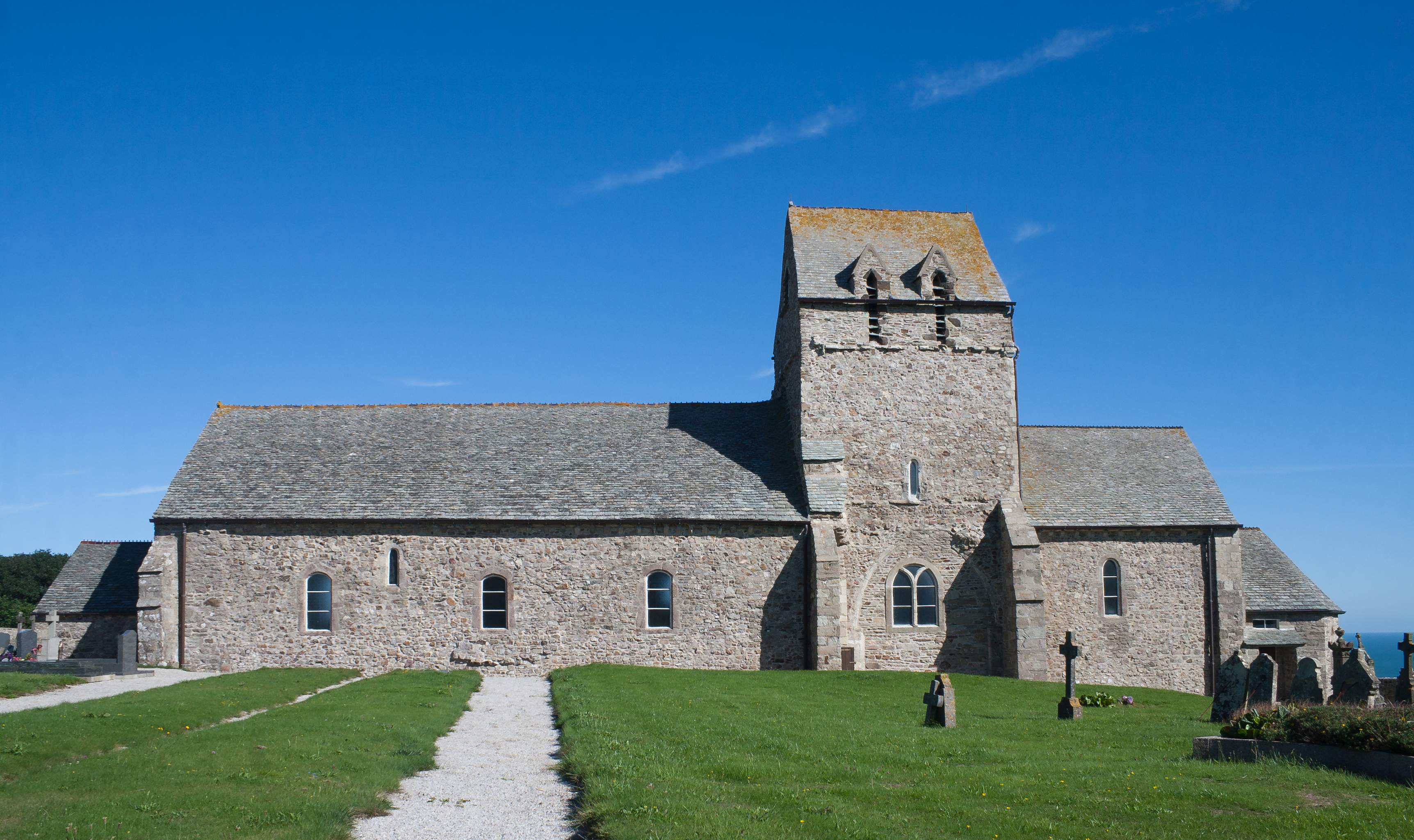 Our Lady's Church in Jobourg.